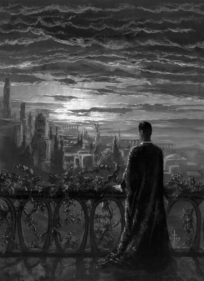 Illustration for the Lovecraft novel "The Dream-Quest of Unknown Kadath", acrylics on cardboard